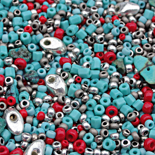 Beads (czech seed beads, Miyuki Long Magatama, turquoise chips)